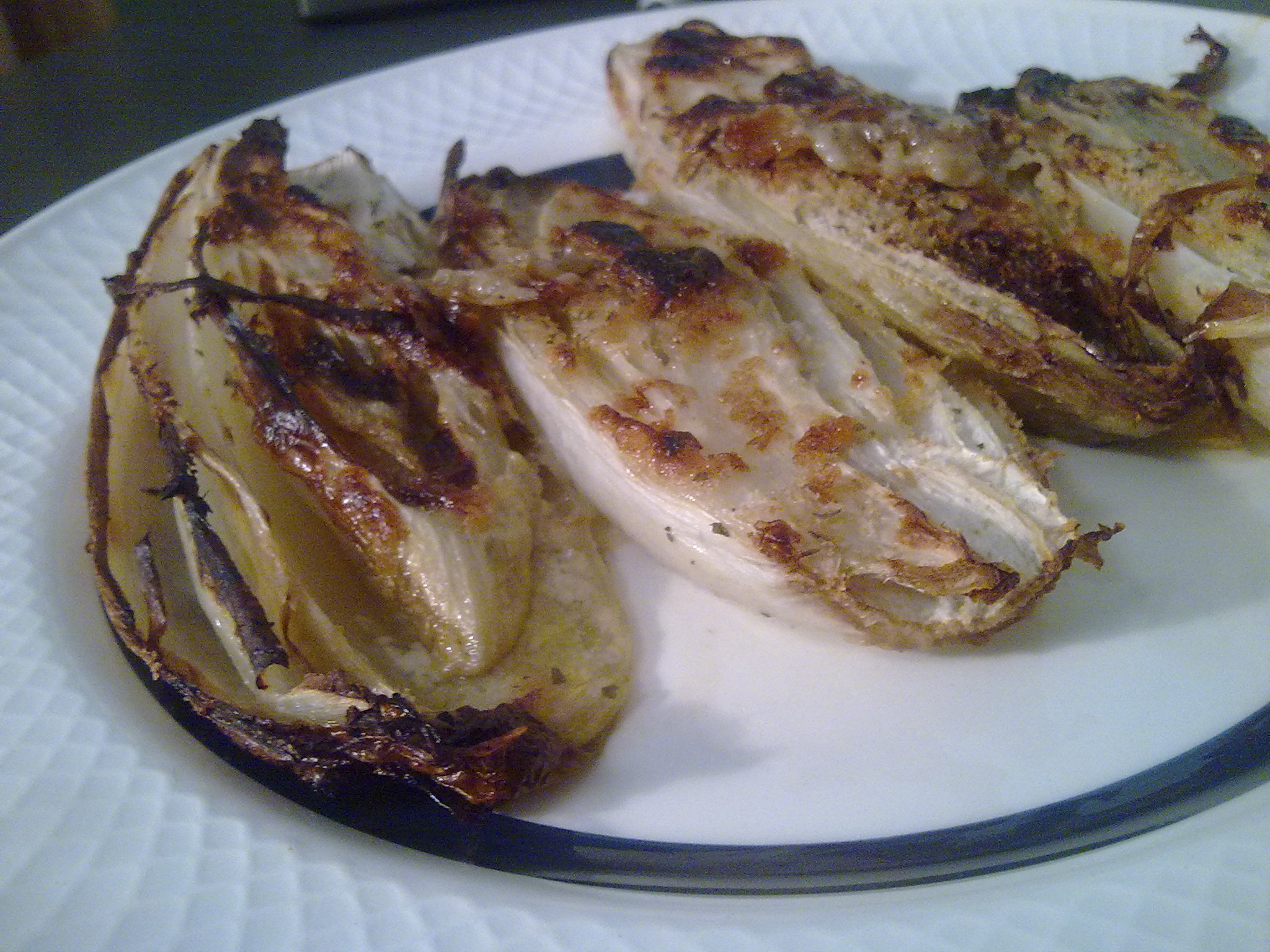 Grilled endives with oats cream - Endibias al horno con crema de avena Baked frozen vegetable sausages and peas